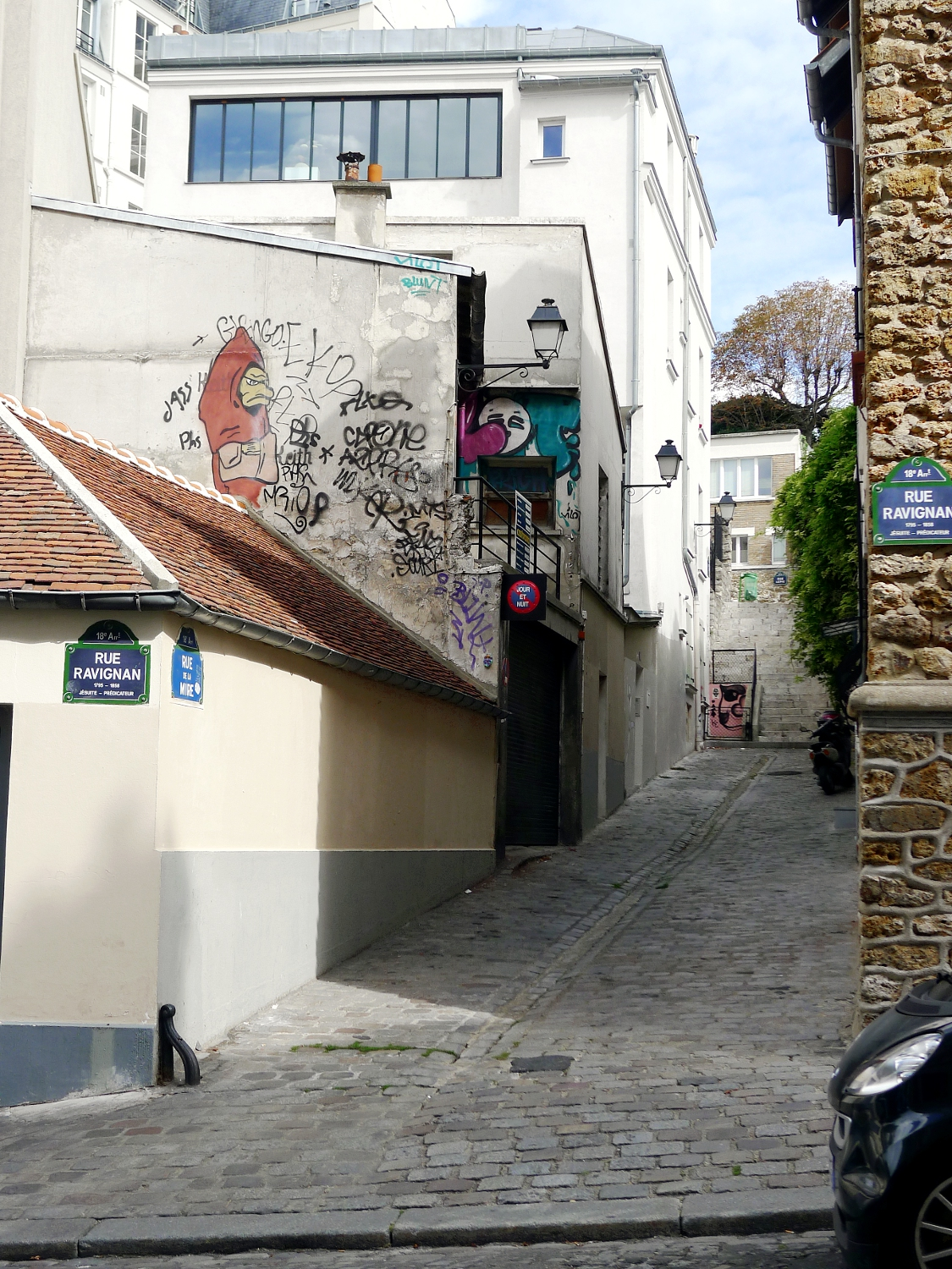 Mire street - Paris